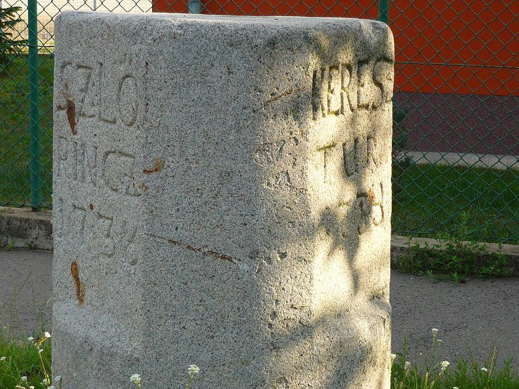 The triple border stone of the former towns of Rákoskeresztúr, Szentlőrinc and Pest from 1738 (all of them are incorporated parts of Budapest since) on the corner of Tünde and Álmos streets in the 18th district.